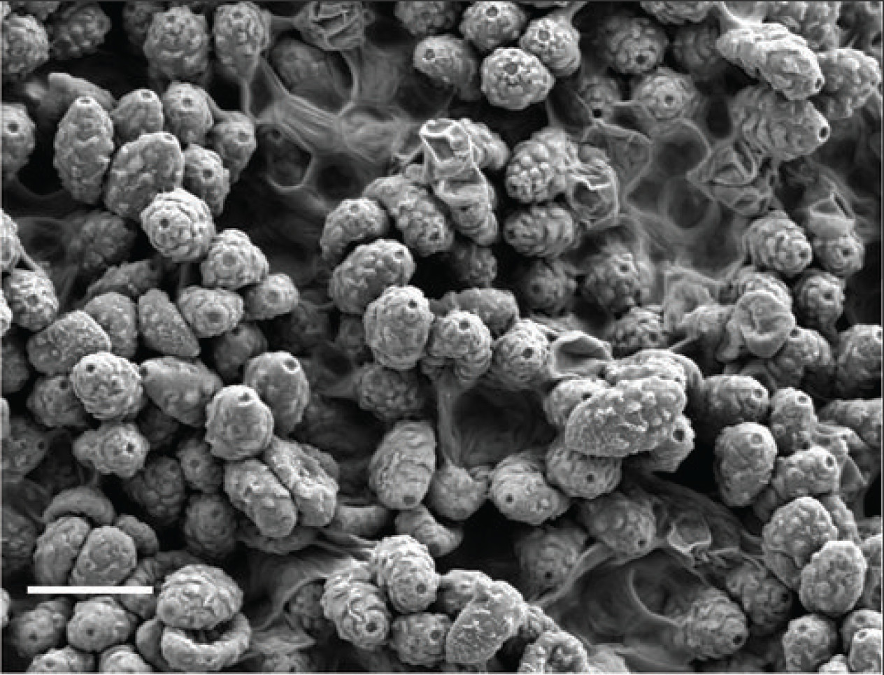 Scanning electron microscopy of the hymenium of the fungus Spongiforma squarepantsii Desjardin, Peay & T.D.Bruns (2011). The specimen from which this was prepared was collected from Lambir Hills National Park, Borneo, Sarawak, Malaysia. Comment at Mushroom Observer page: "This is Dennis’ scanning EM of the hymenium the warty spores with the prominent germ pore are mostly what is seen".